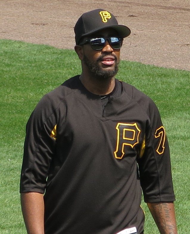 Felipe Rivero on April 15, 2017.